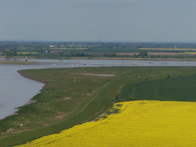 Alkborough Flats and Trent Falls, north east of Alkborough, Lincolnshire, England.